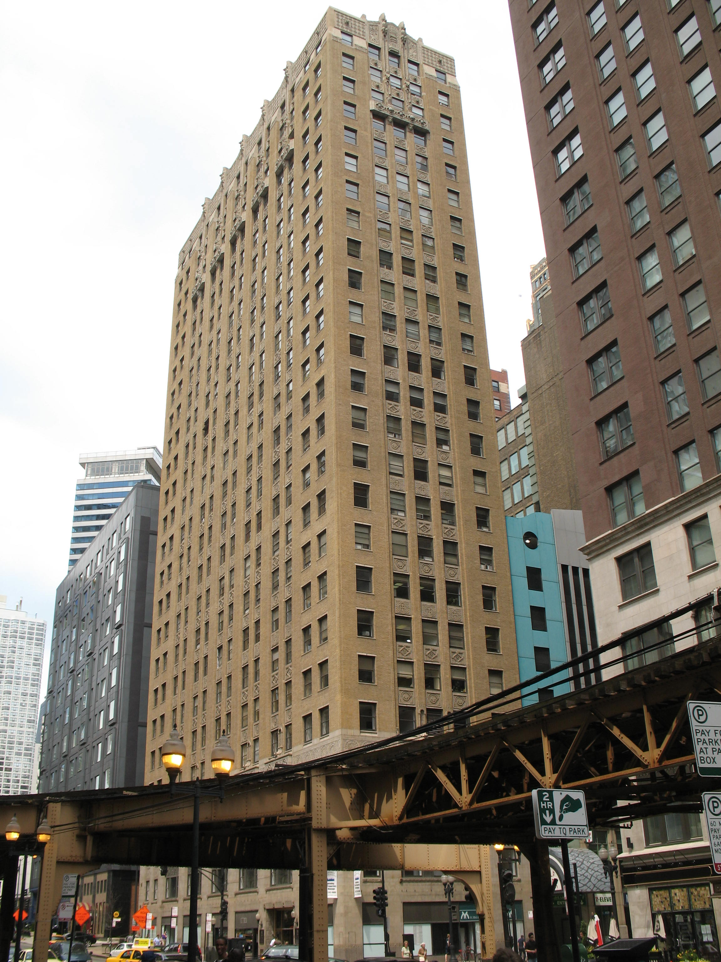 203 North Wabash (Old Dearborn Bank Building)